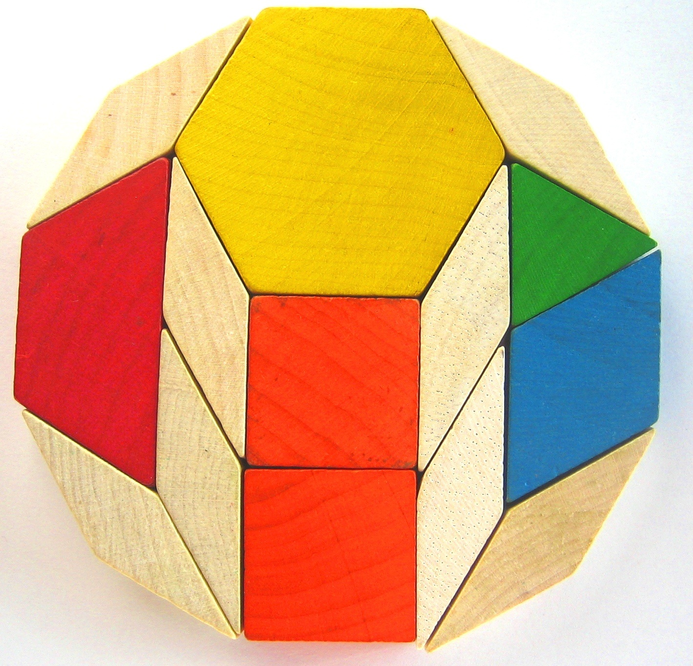 A dodecagon made of wooden pattern blocks. These are mathematics teaching materials ("manipulatives"): there are six different shapes: square, hexagon, a thin rhombus, a fat rhombus, an equilateral triangle and a trapezium (US: trapezoid). All have the same unit length.